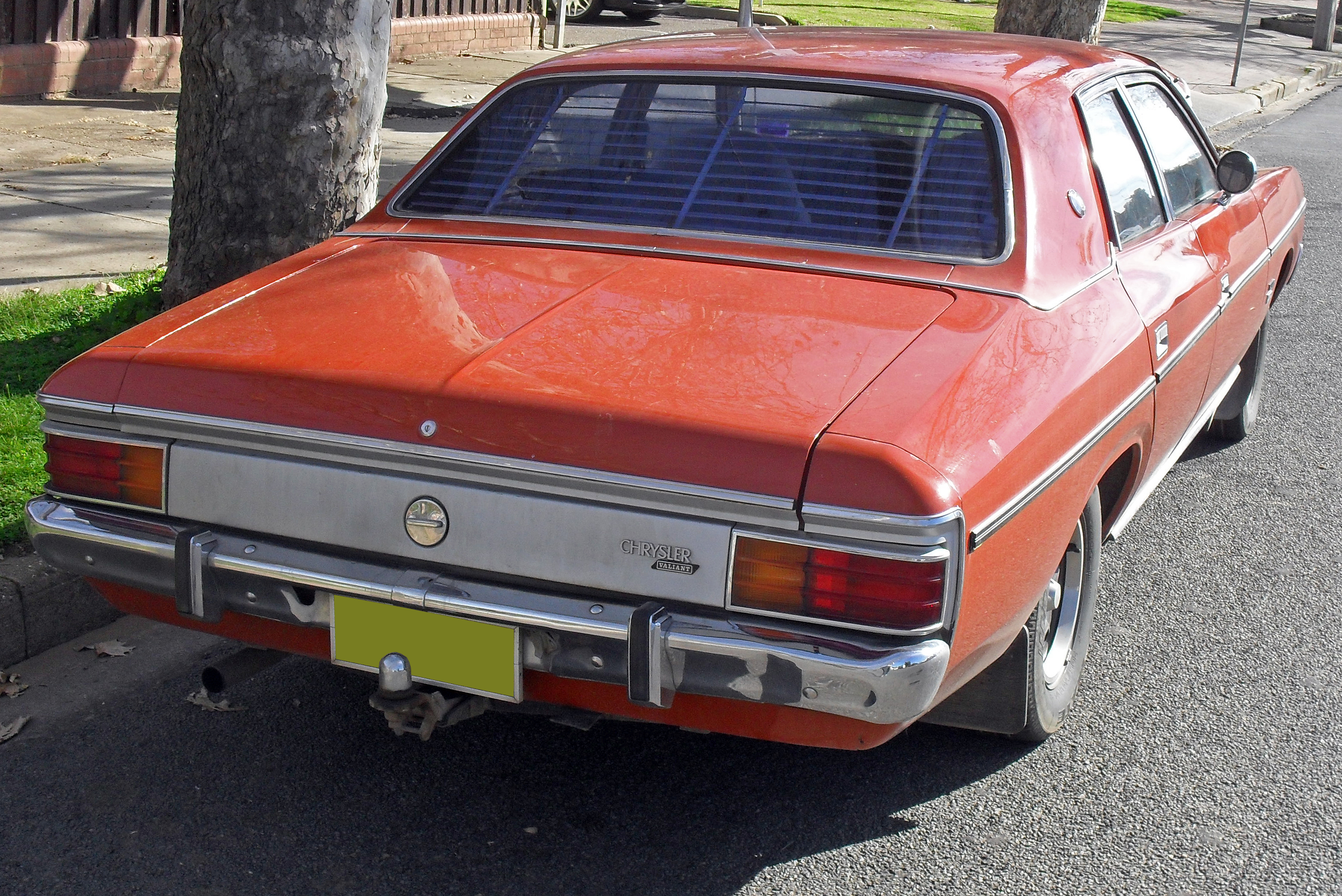 1978-1981 Chrysler CM Valiant sedan photographed in New South Wales, Australia.